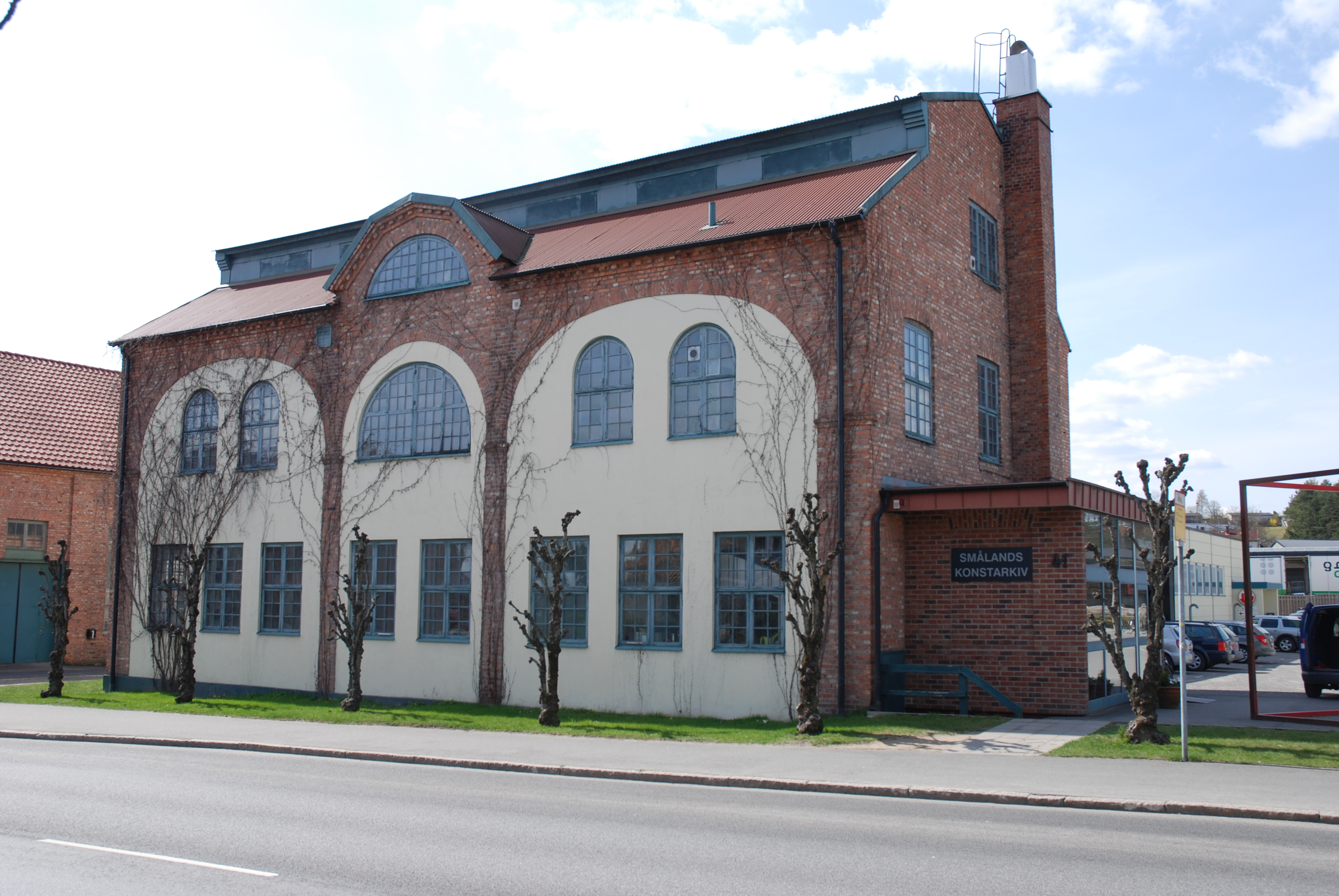 Smålands Konstarkiv, Värnamo, Sweden